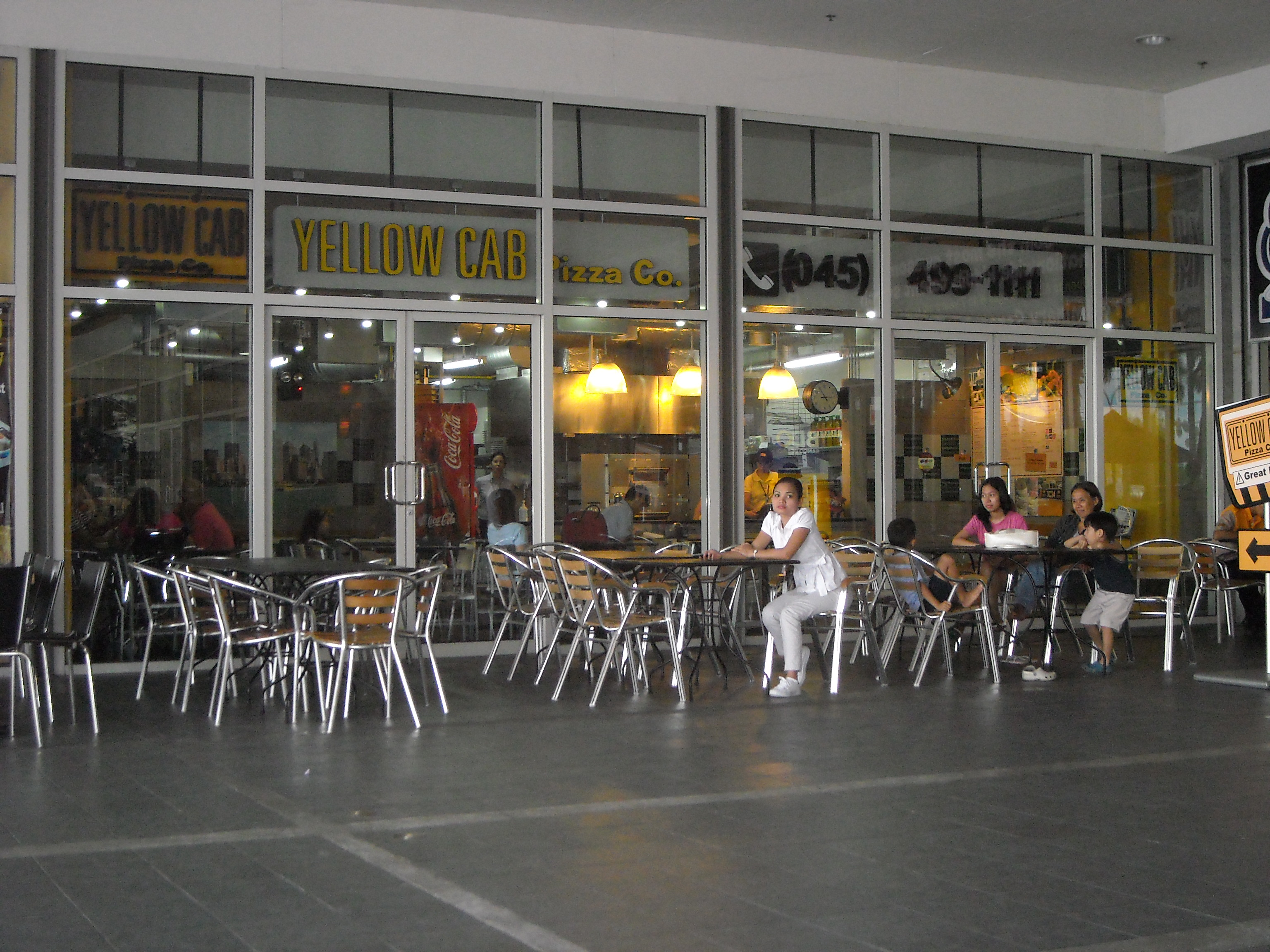 A pizza branch located in a shopping mall.